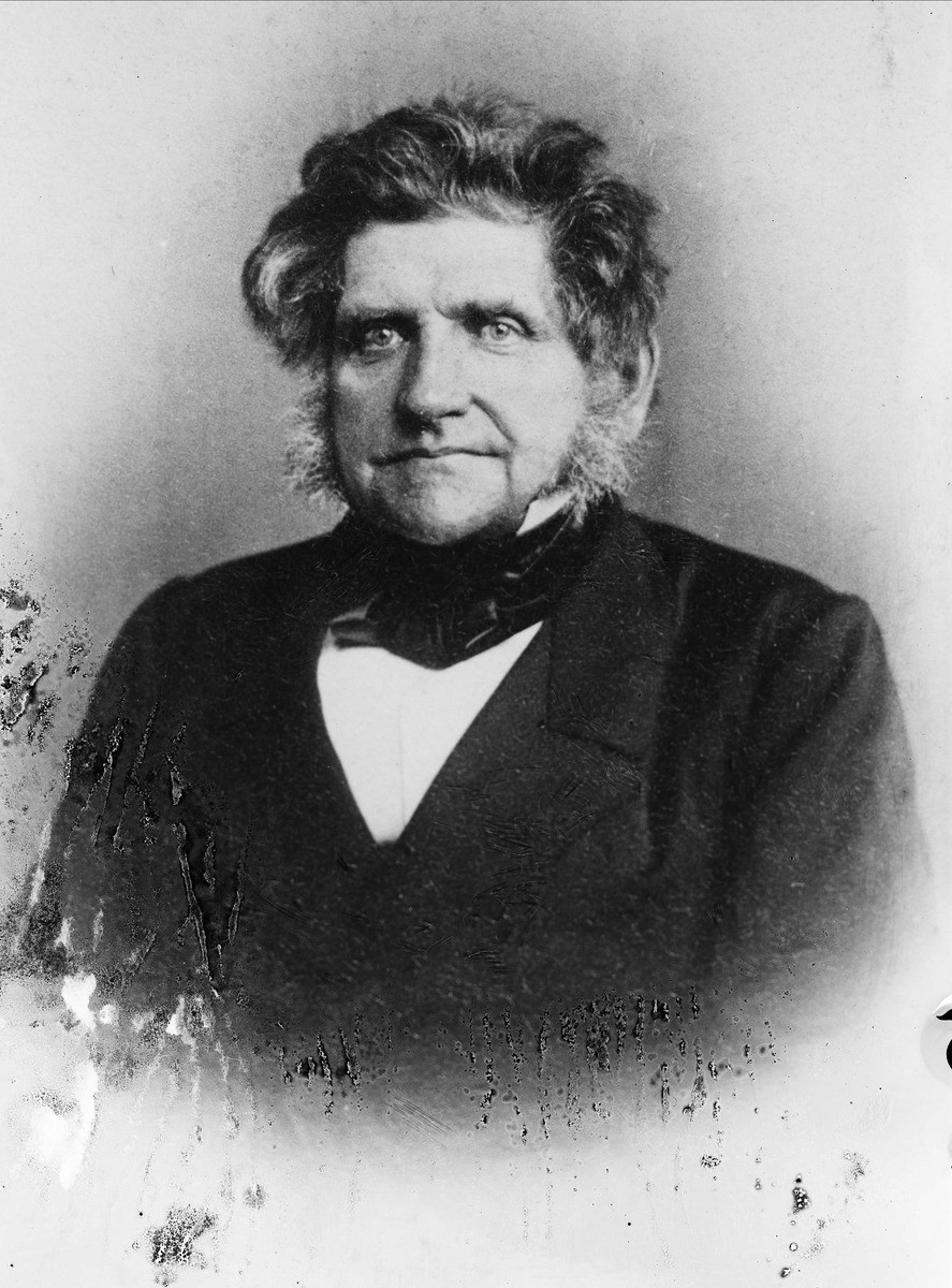 Norwegian philanthrop Henrik Heftye (1804–1864).